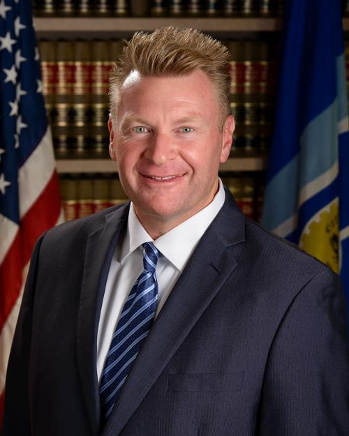 Official city portrait, 2016.